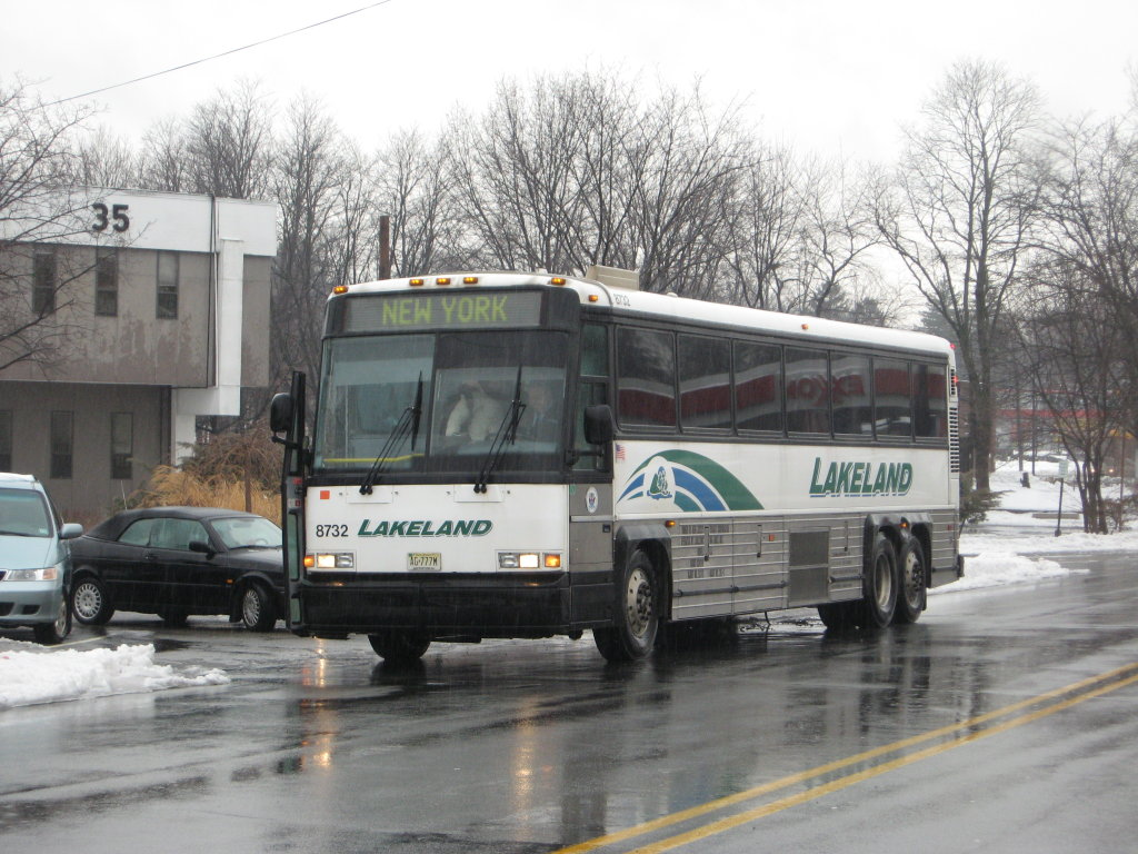 Lakeland Bus Lines #8732 (leased from New Jersey Transit) picks up customers in Denville, New Jersey, on the #46 line to New York City.